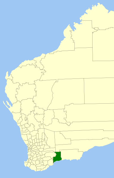 Location of the Local Government Area in Western Australia